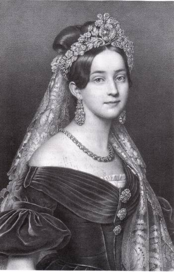 Portrait of Amalia of Oldenburg (1818-1875), Queen of Greece